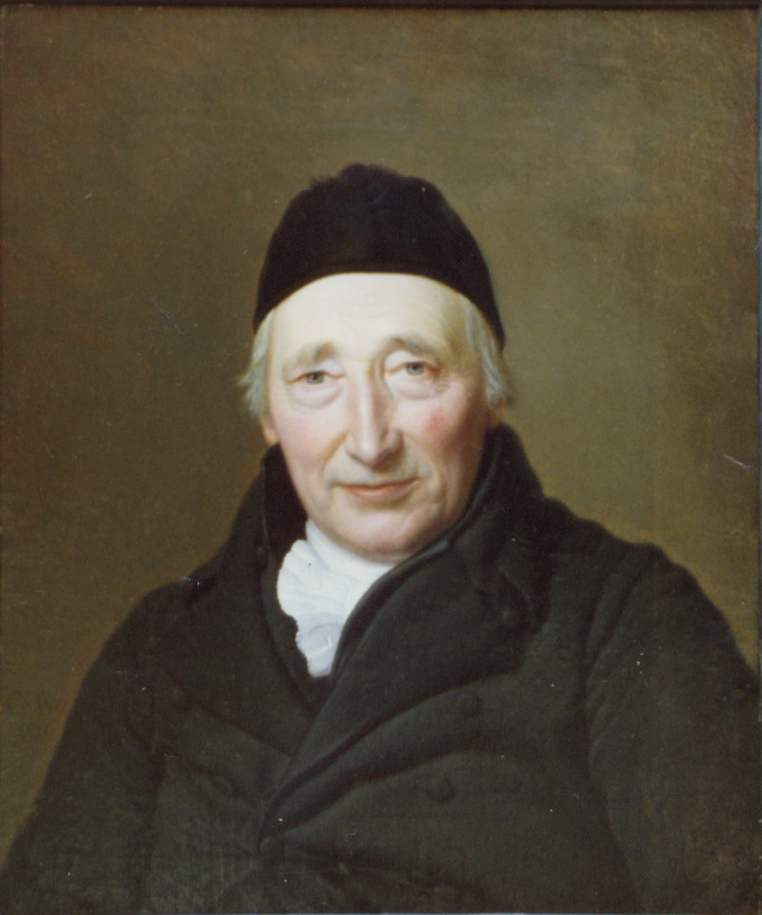 Heinrich Rathmann (died in 1821), contemporary portrait, probably by Sieg in 1819